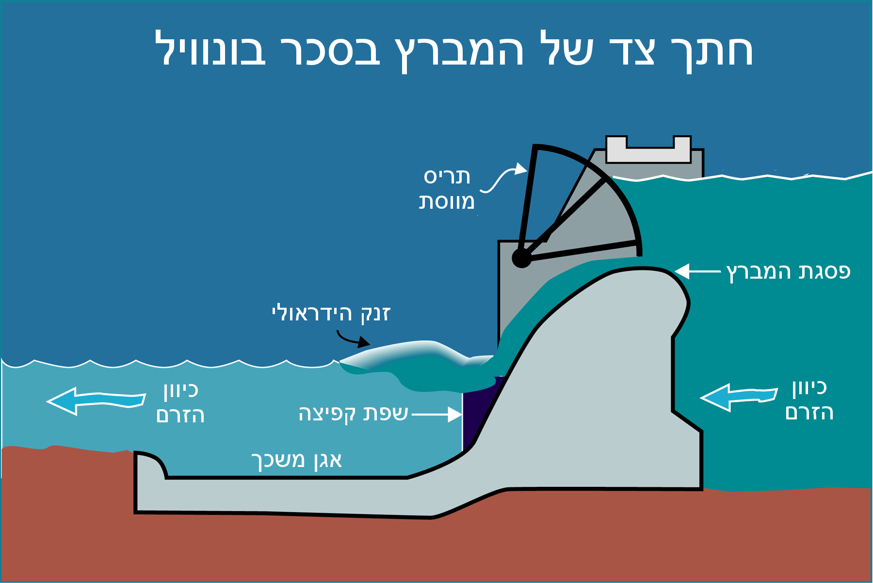 Bonneville Dam spillway cross-section